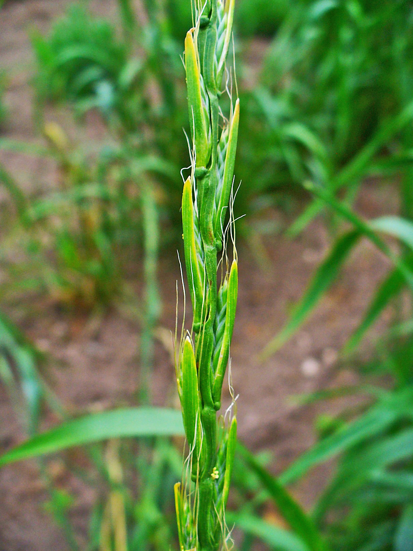 Lolium temulentum, Poaceae, Darnel, Cockle, flowers. The ripe, dried fruits are used in homeopathy as remedy: Lolium temulentum (Lol-t.)